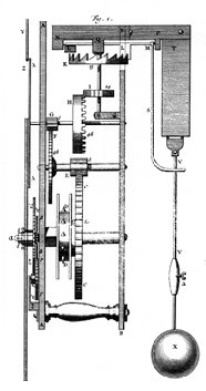 The second pendulum clock built by Christiaan Huygens, inventor of the pendulum clock, around 1658. It is from his treatise Horologium Oscillatorium, published 1673, Paris, and it records improvements to the mechanism that Huygens had illustrated in the 1658 publication of his invention, titled Horologium. It is a weight driven clock (the weight chain is removed) with a verge escapement (K,L), with the pendulum (X) suspended on a cord (V). The large metal plate (T) in front of the pendulum cord is the first illustration of Huygens' 'cycloidal cheeks', an attempt to improve accuracy by forcing the pendulum to follow a cycloidal path, making its swing isochronous. Huygens claimed it achieved an accuracy of 10 seconds per day. Alterations to image: Cropped out the frame, caption. and figs. 2,3, and 4 which showed mechanical details of the clock.